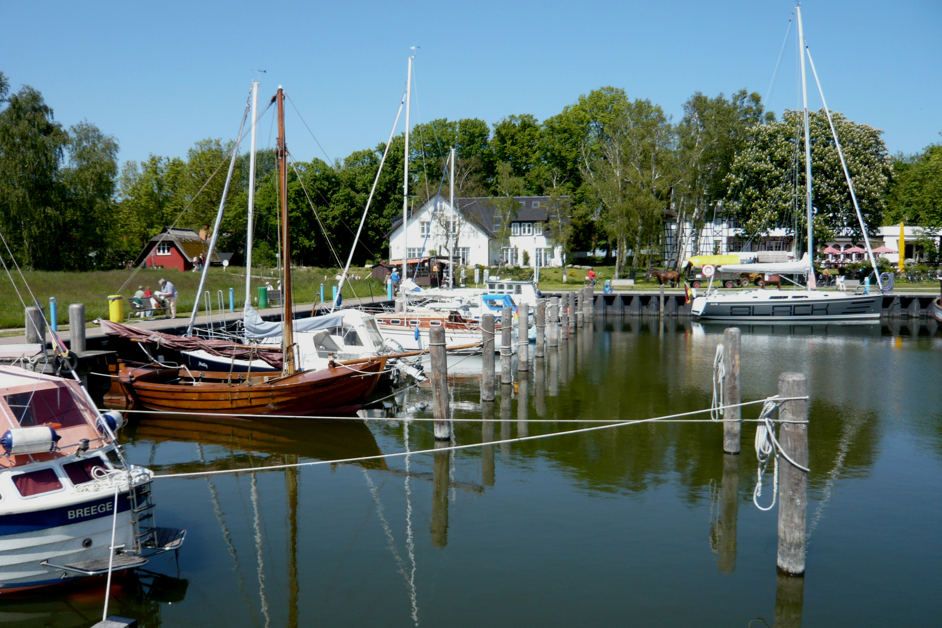 Port of Kloster, village on the island Hiddensee in Mecklenburg-Vorpommern, Germany.